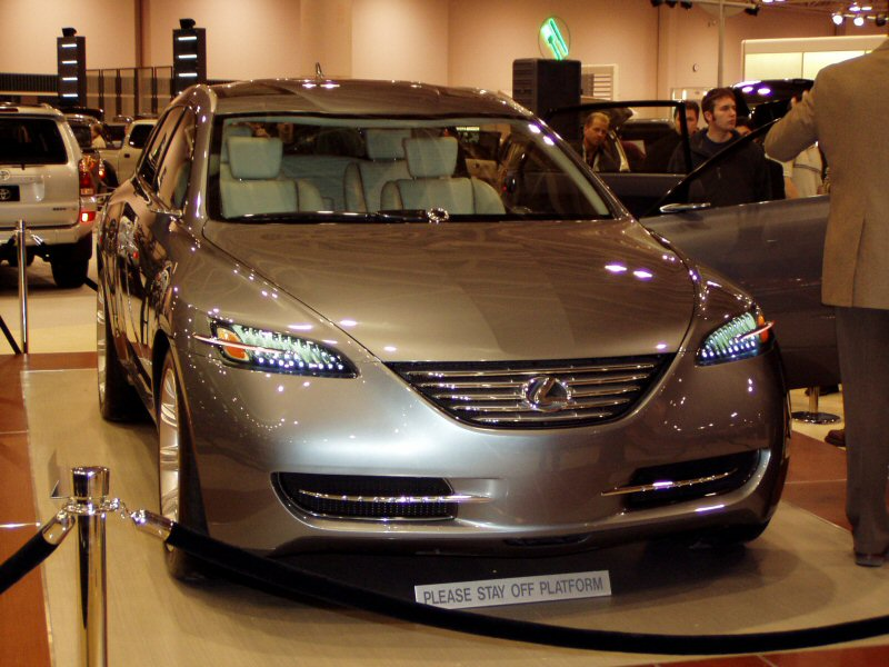 Lexus, please make this car...